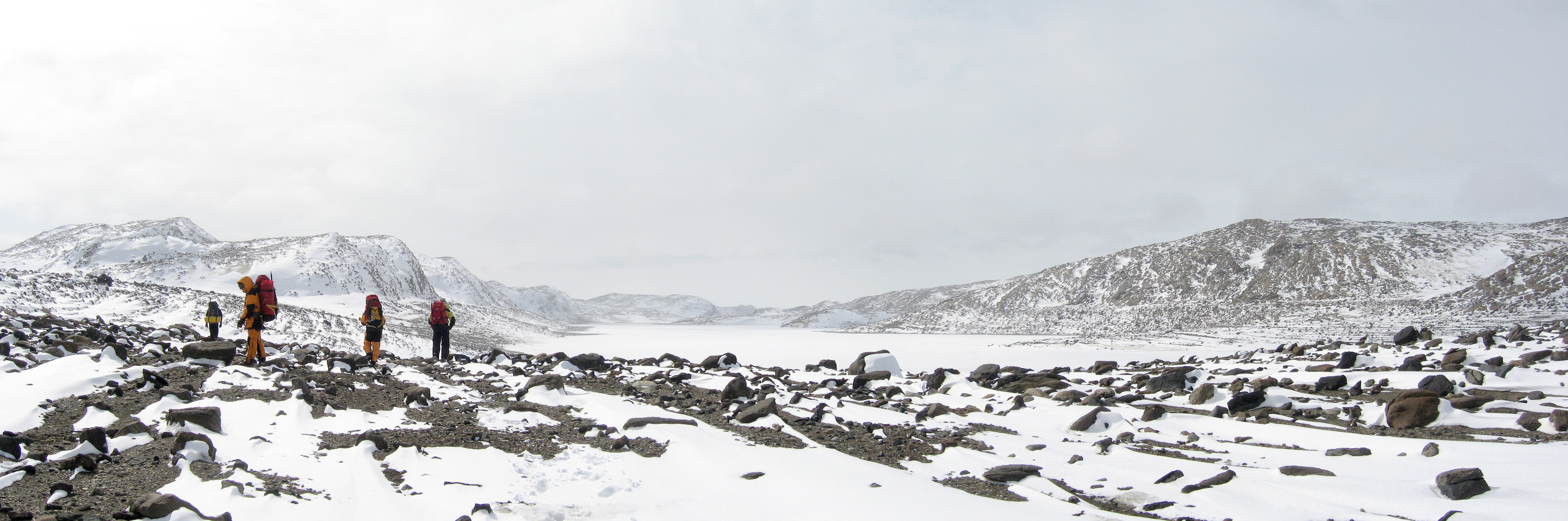 Party of 4 people at the Northern end of Lake Stinear in the snow-covered Vestfold Hills, Antarctica in November, 2008.